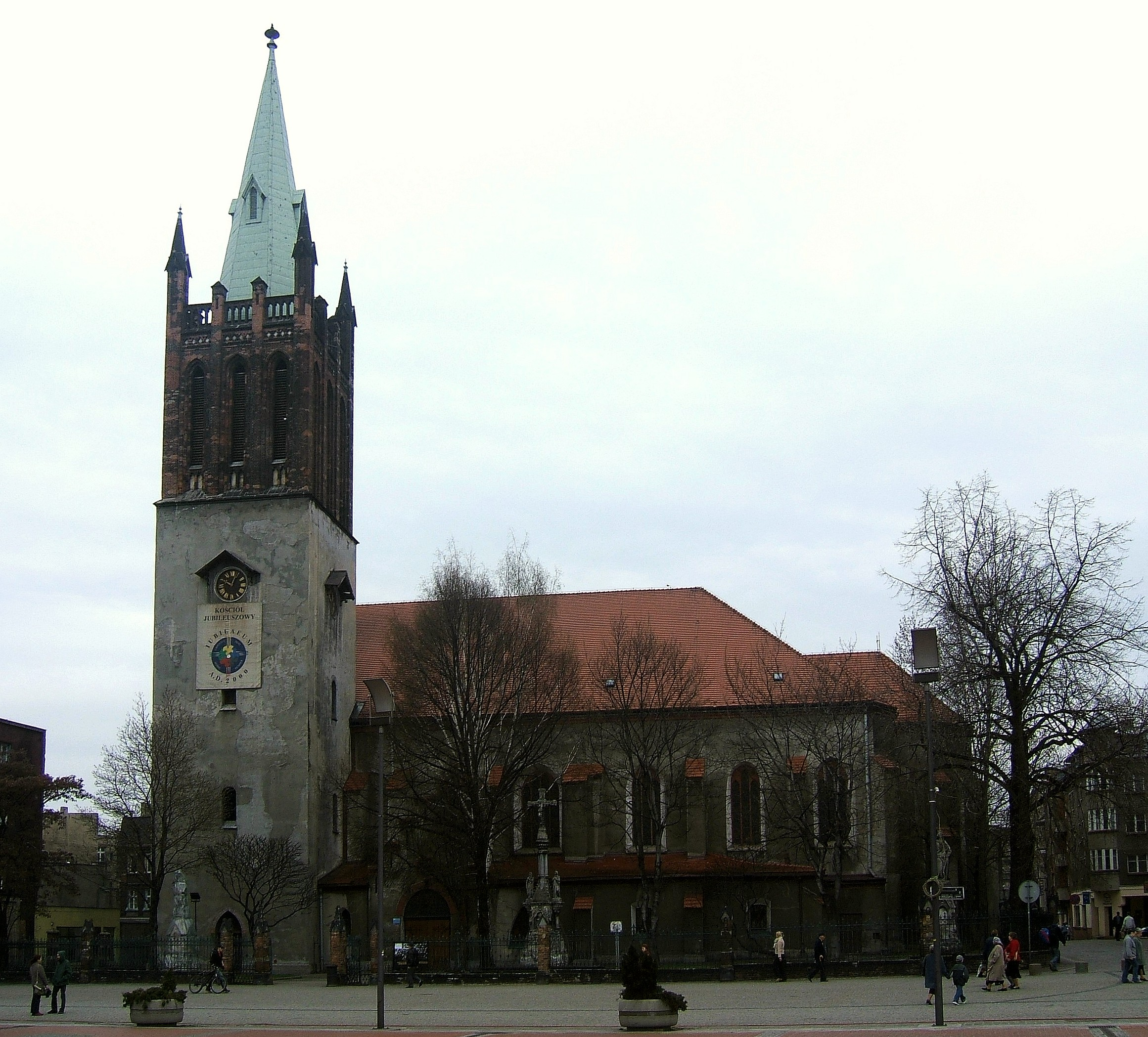 St. Mary's church in Bytom.